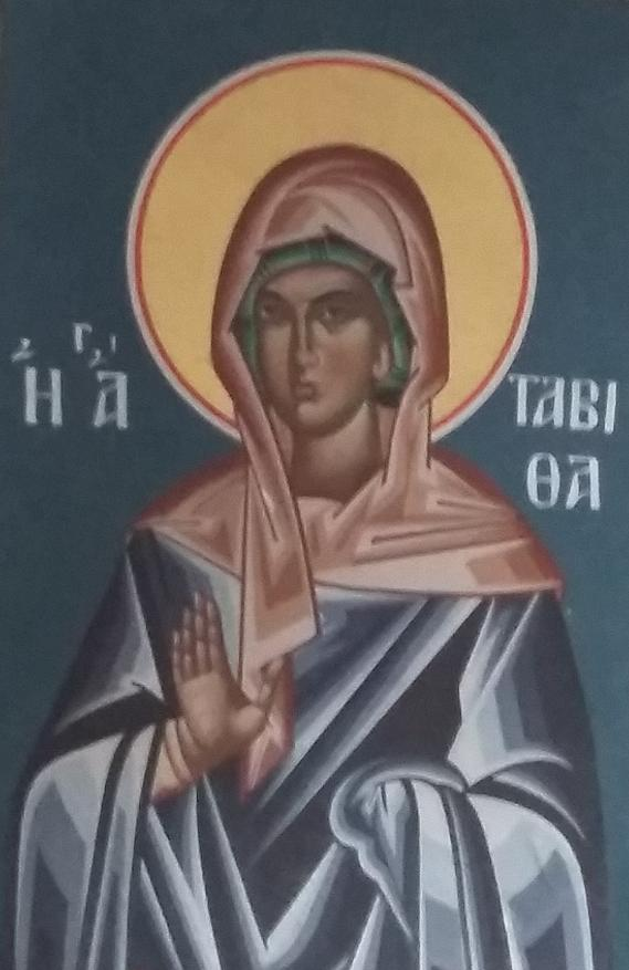 Dorcas, Saint Tabitha in Eastern tradition